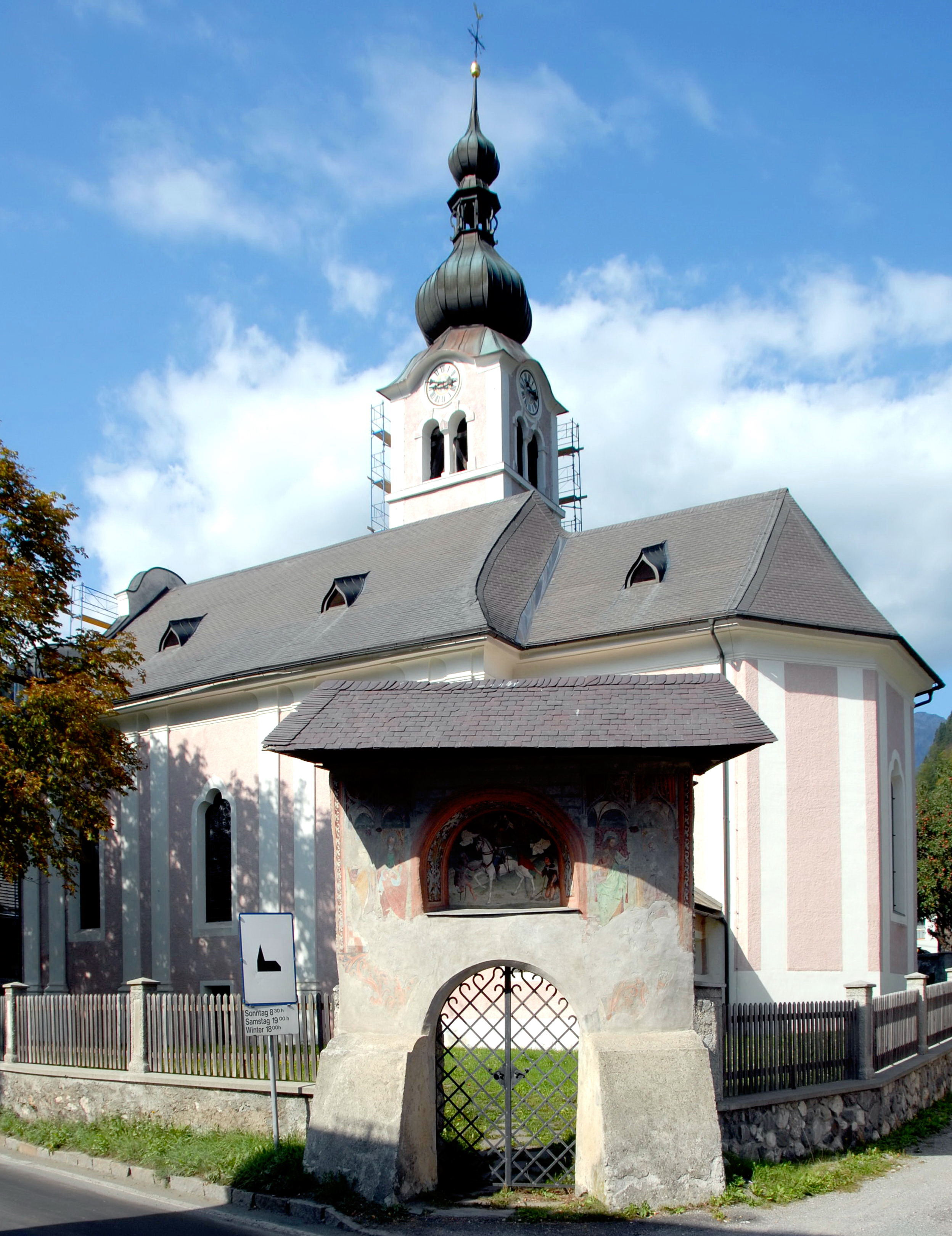 Parish church Saint Martin in Kirchbach, municipality Kirchbach, district Hermagor, Carinthia / Austria / EU